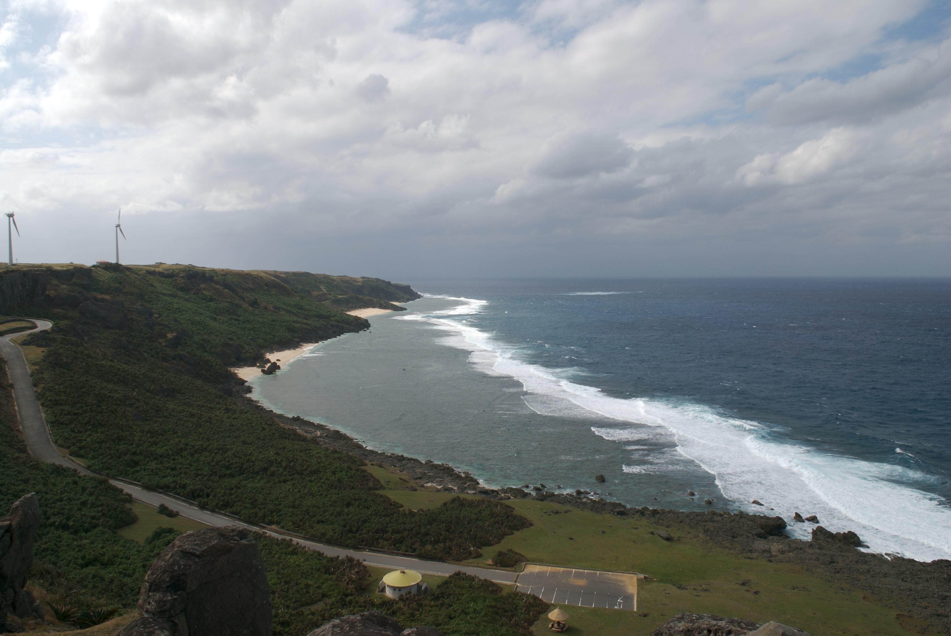 Yonaguni Island coast